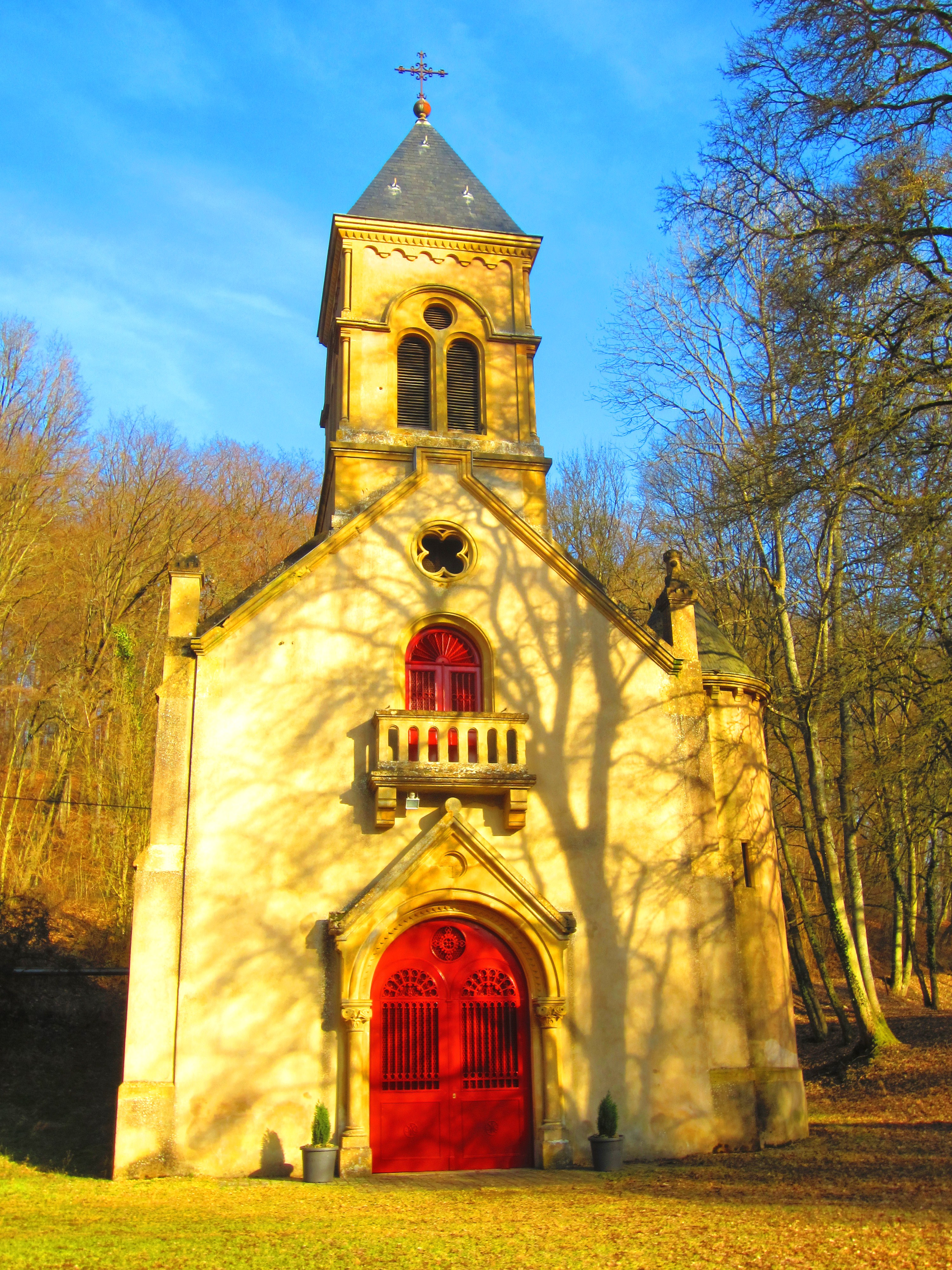 ND Rabas St Hubert Moselle chapel